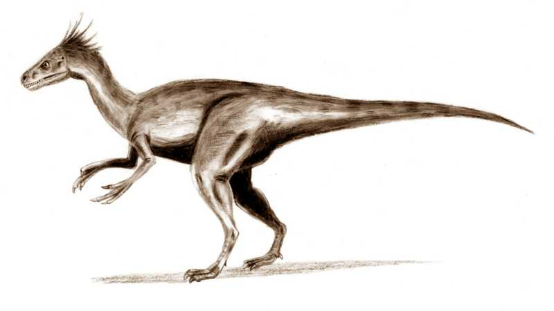 Ornitholestes, pencil drawing